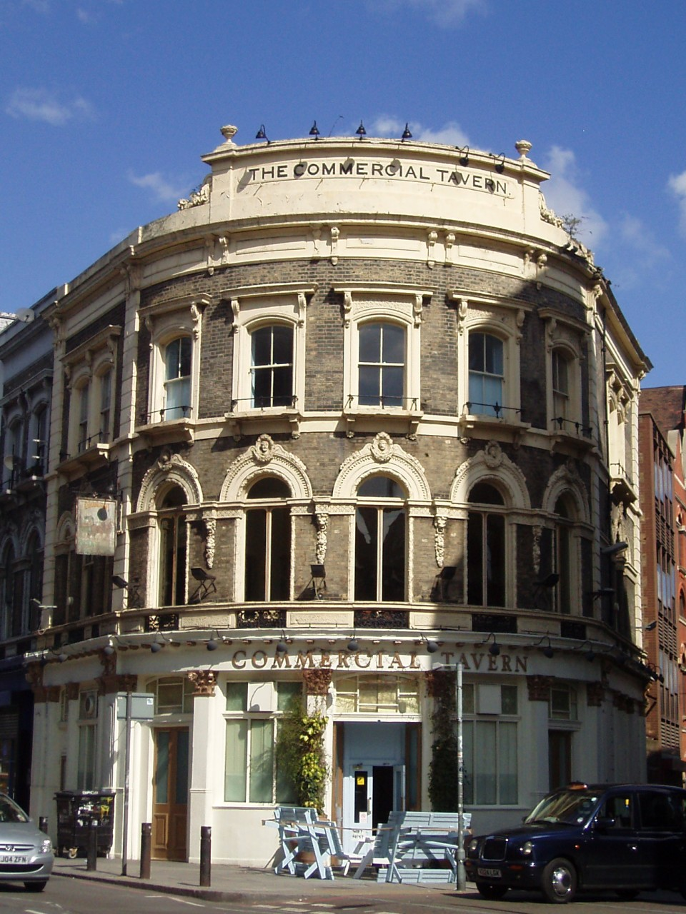 Lovely old building on Commercial St, and a pretty good pub inside it as well. Hawksmoor steak house is across the street. Address: 142 Commercial Street. Former Name(s): The Commercial Arms. Owner: Charrington (former). Links: Randomness Guide to London Fancyapint Dead Pubs (history)